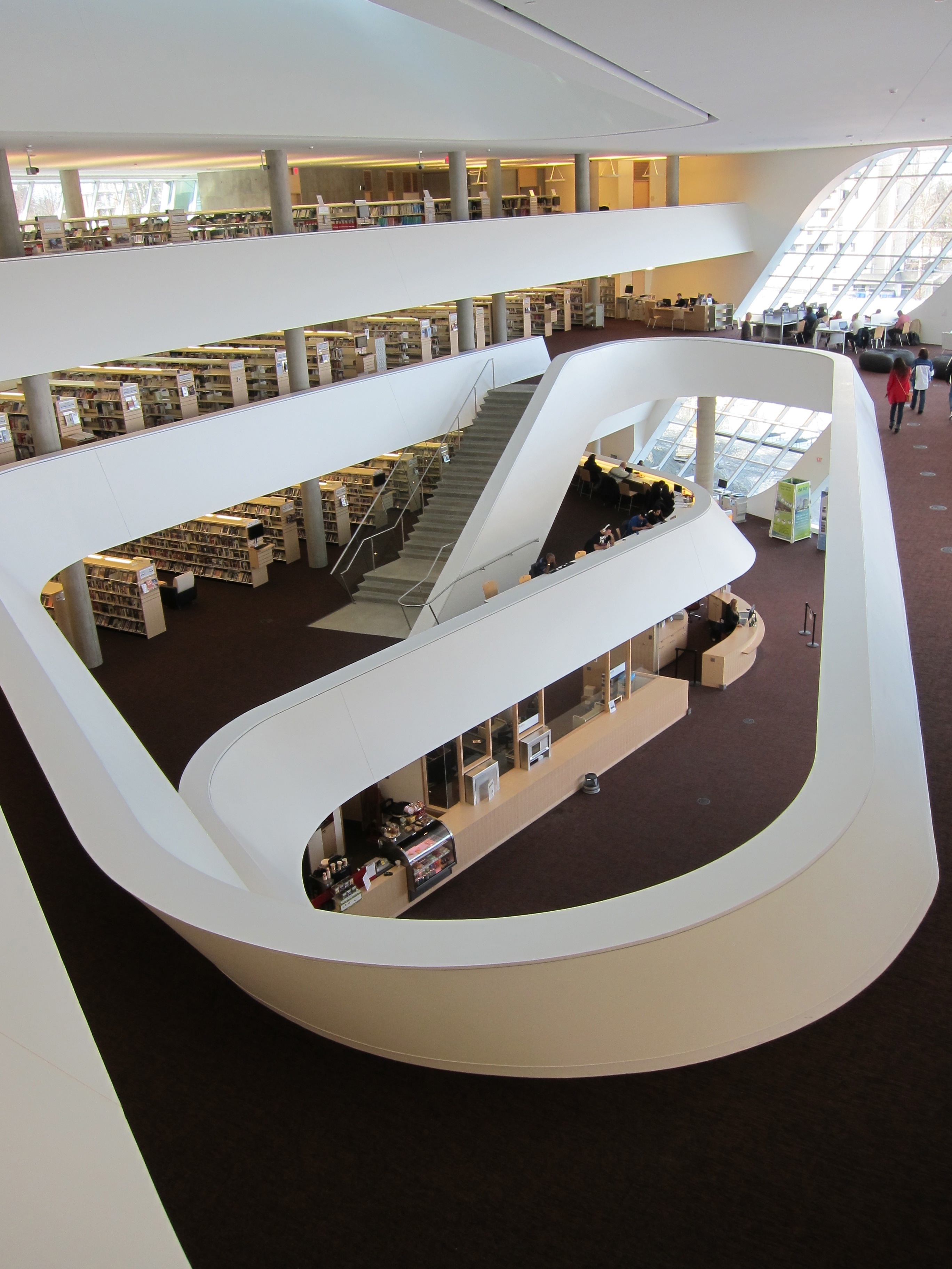 Interior of Surrey City Centre Library, from the fourth floor